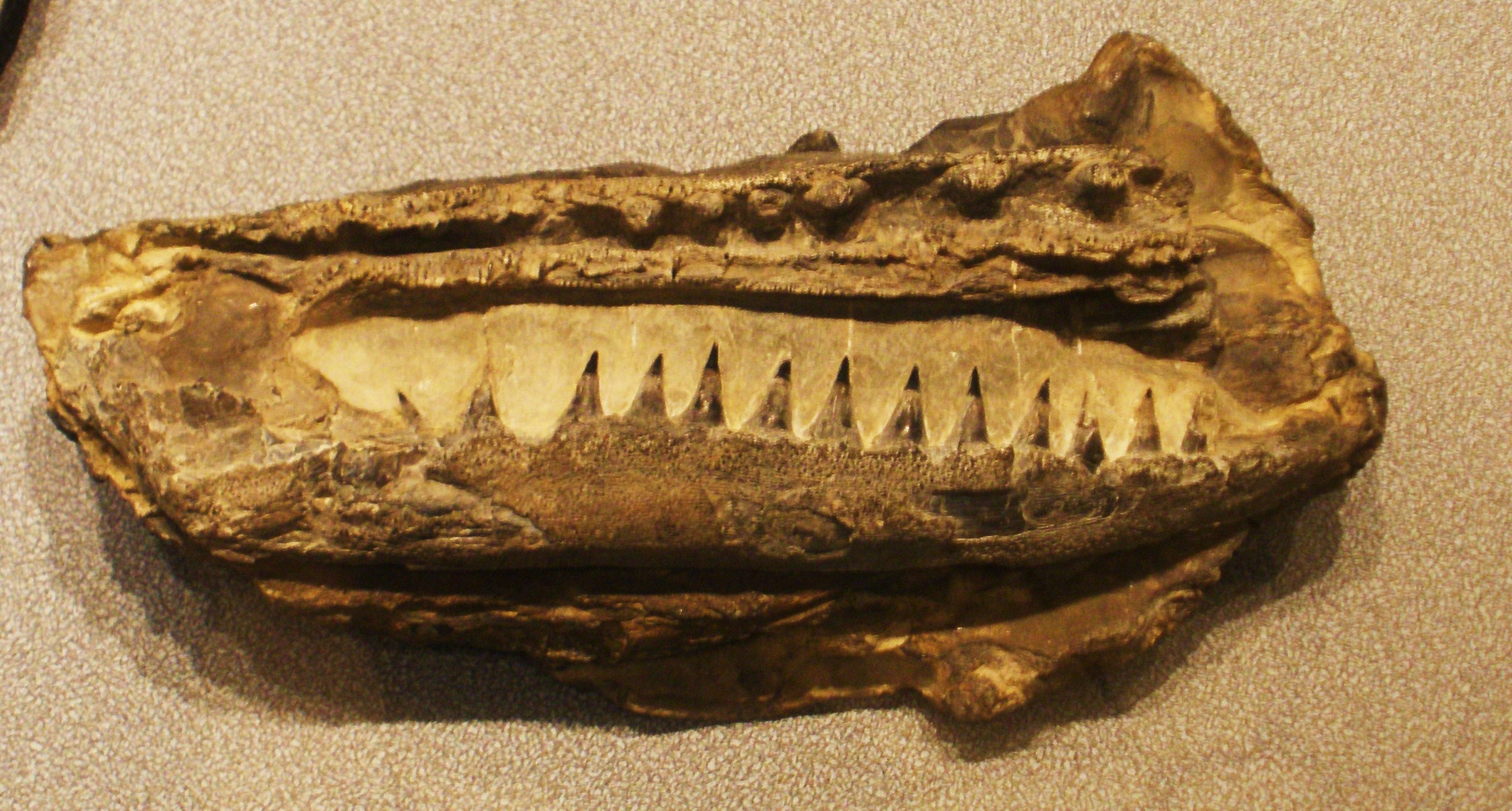 Took the photo at Museo di Storia Naturale di Bergamo